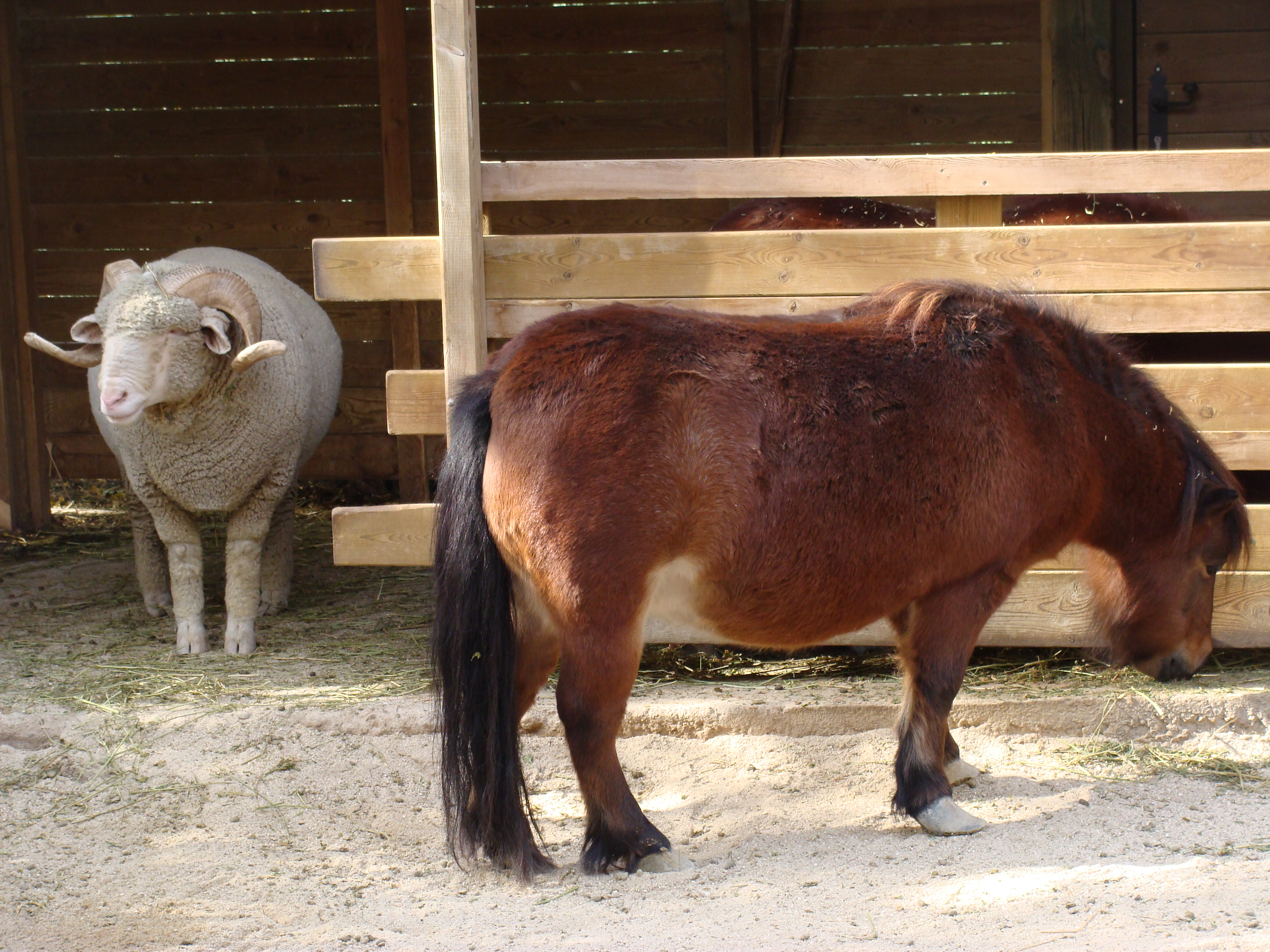 Equus caballus in the Park of Faunia, Madrid, Spain.